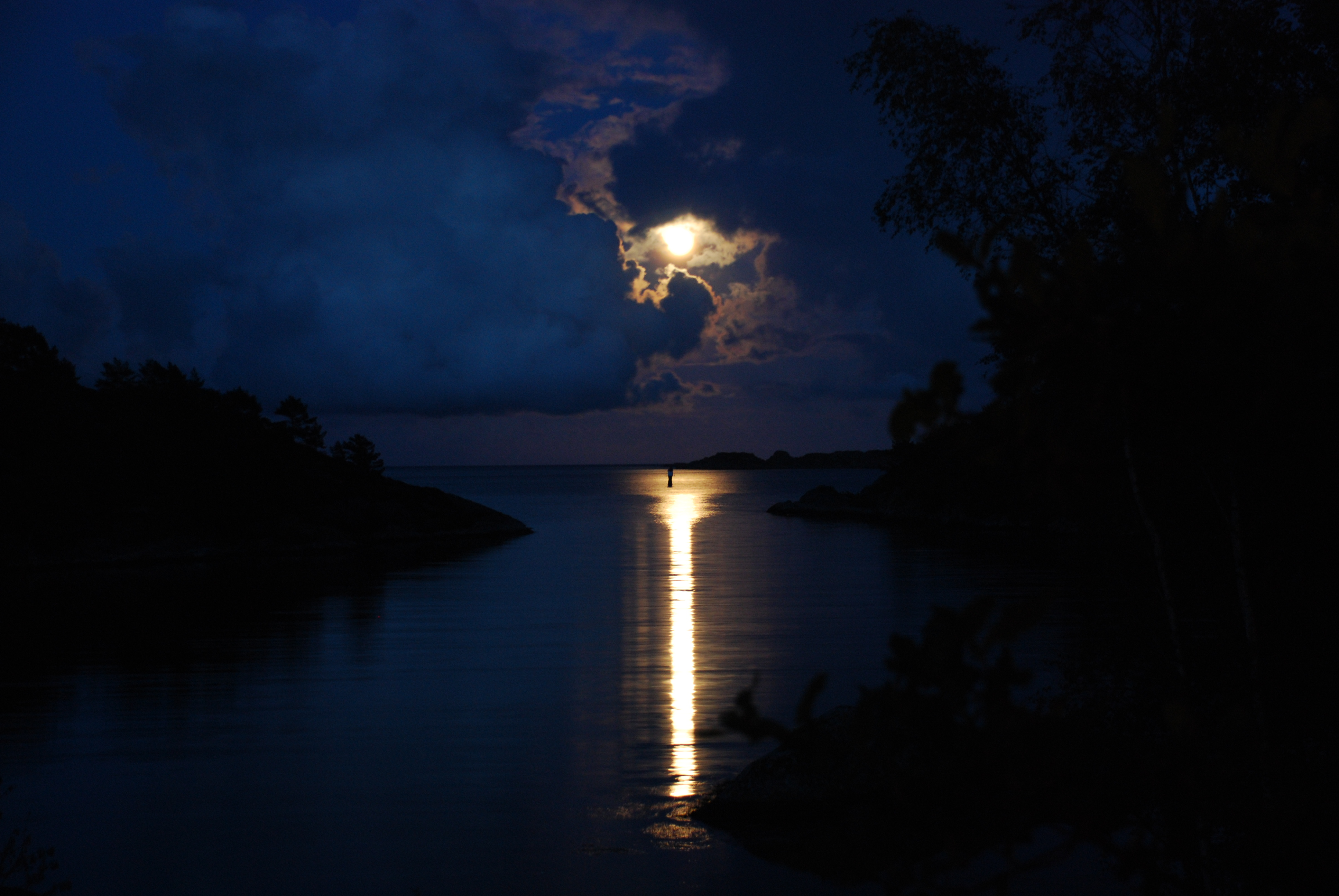 Moonlight over the sea. Location: Skogsøy, east of Mandal, Norway.